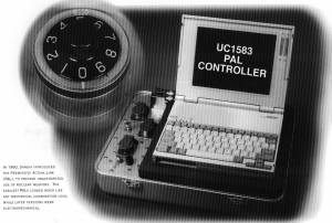 UC1583 PAL controller, part of the STRATCOM Secure Recode System (SSRS).